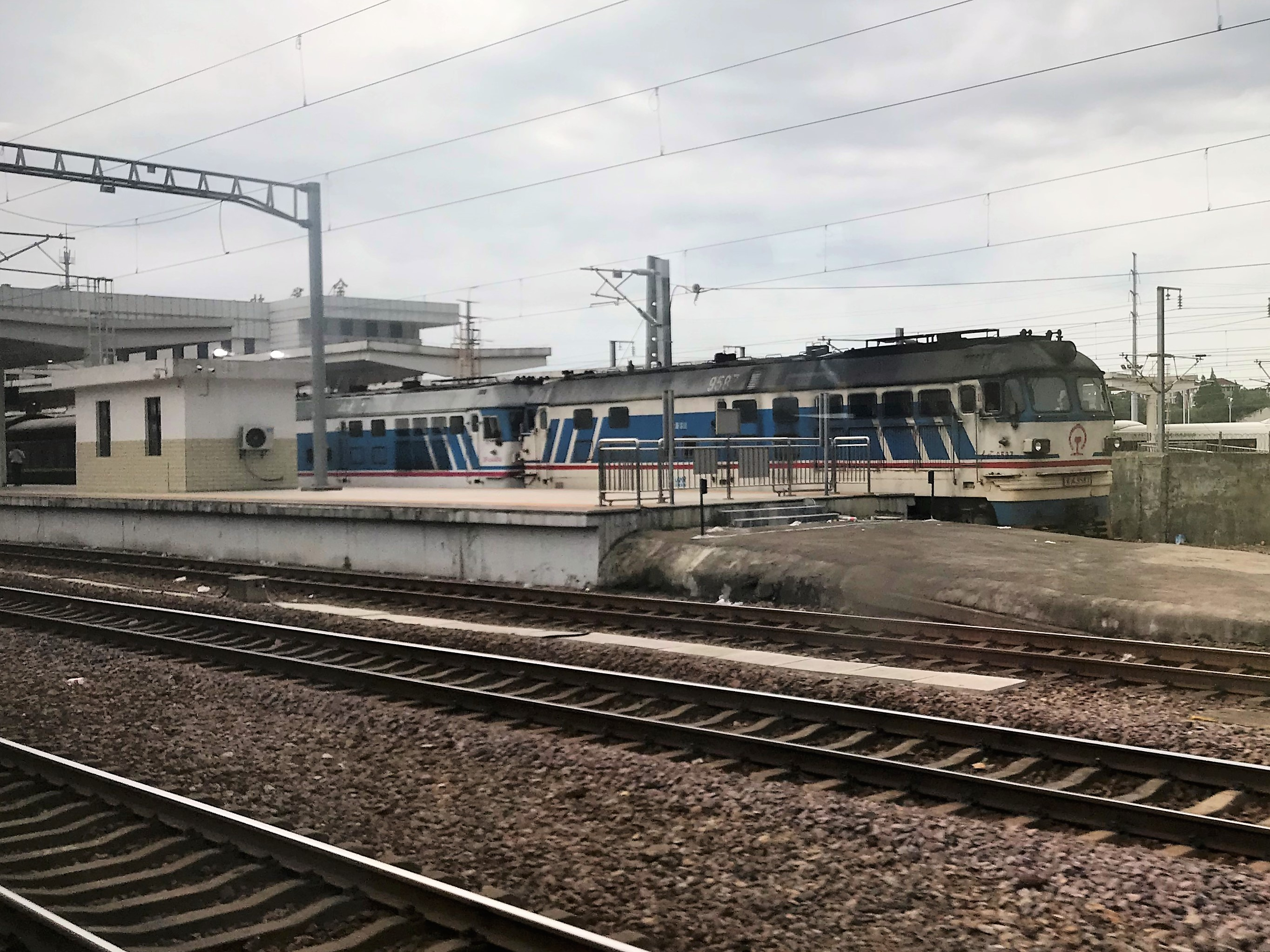 201907 JWR DF4B-9587+xxxx hauls K1258 at Jinhua Station